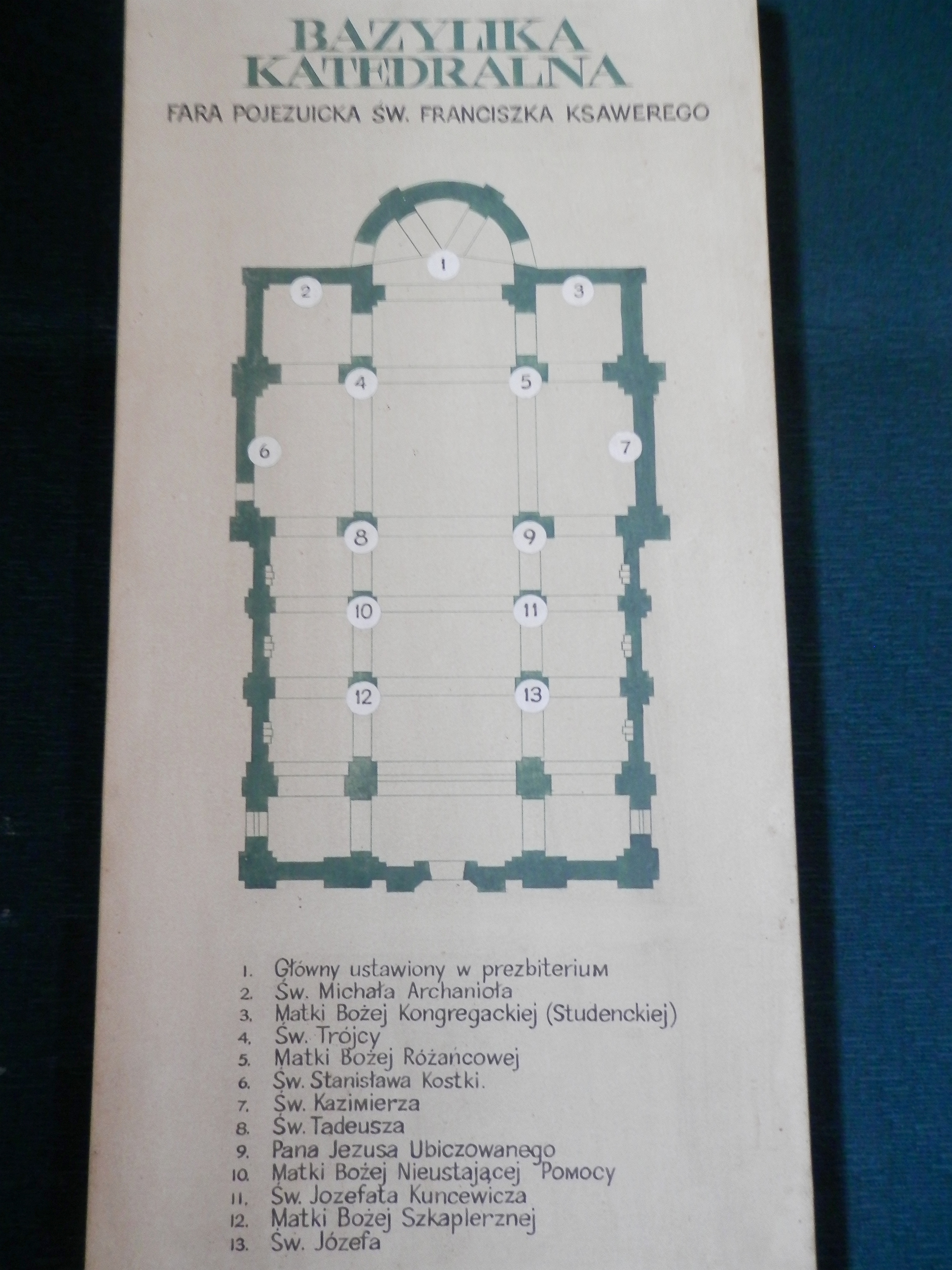 St. Francis Xavier Cathedral, Grodno